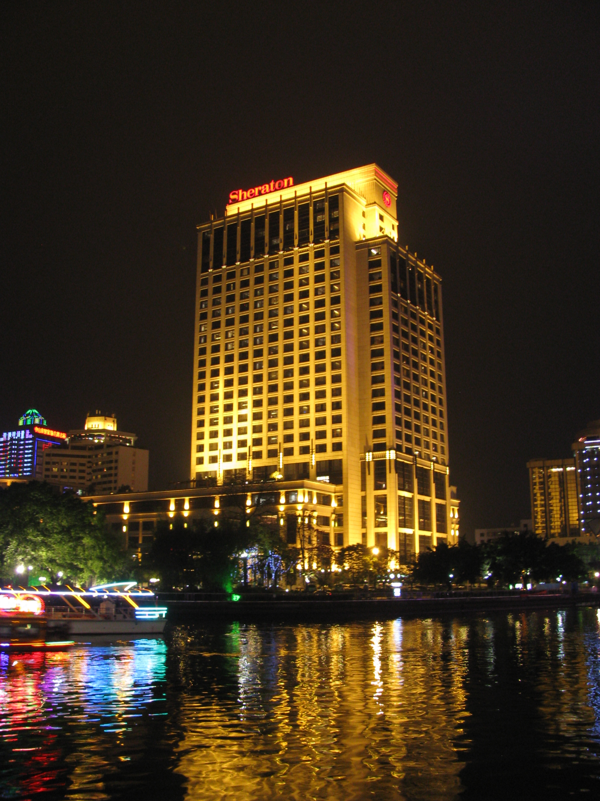 The Sheraton Zhongshan Hotel in Zhongshan, Guangdong, China.